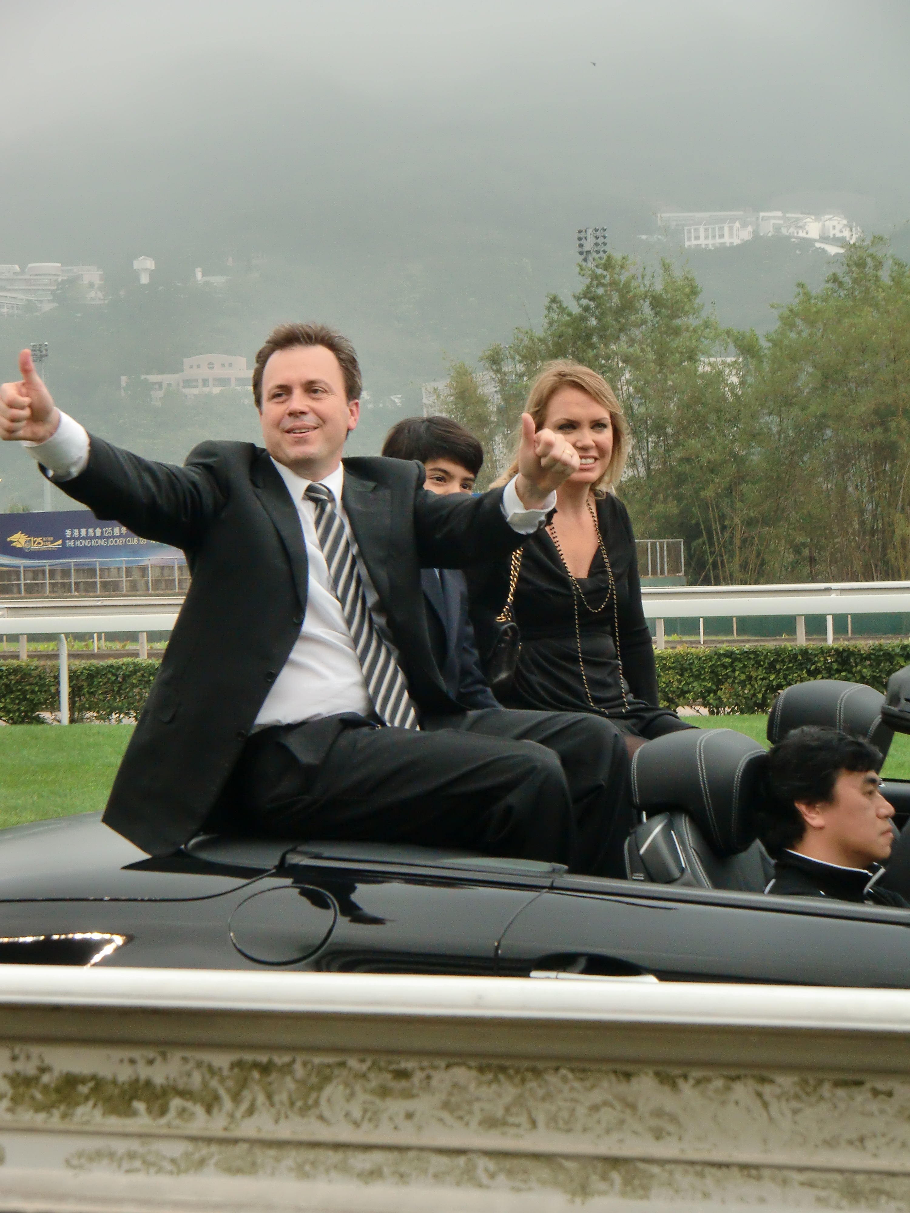 Caspar Fownes (front), A Australian horse trainer based in Hong Kong. He is celebrating won Hong Kong Derby first time